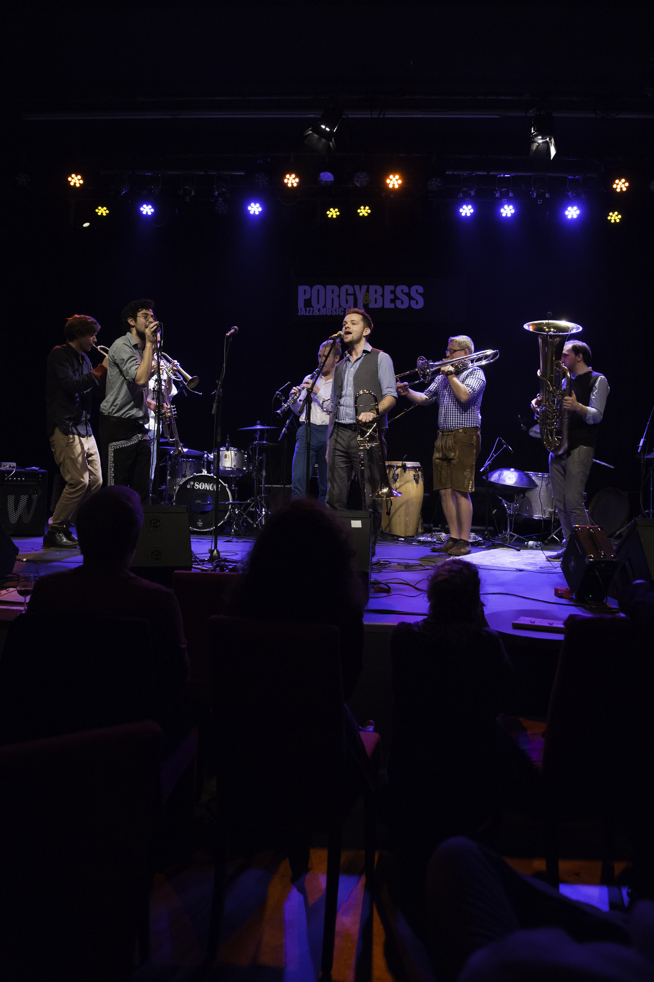 Federspiel, winners of the Austrian World Music Awards 2015, during their encore; Porgy&Bess in Vienna, Austria.